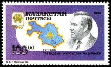 Stamp of Kazakhstan